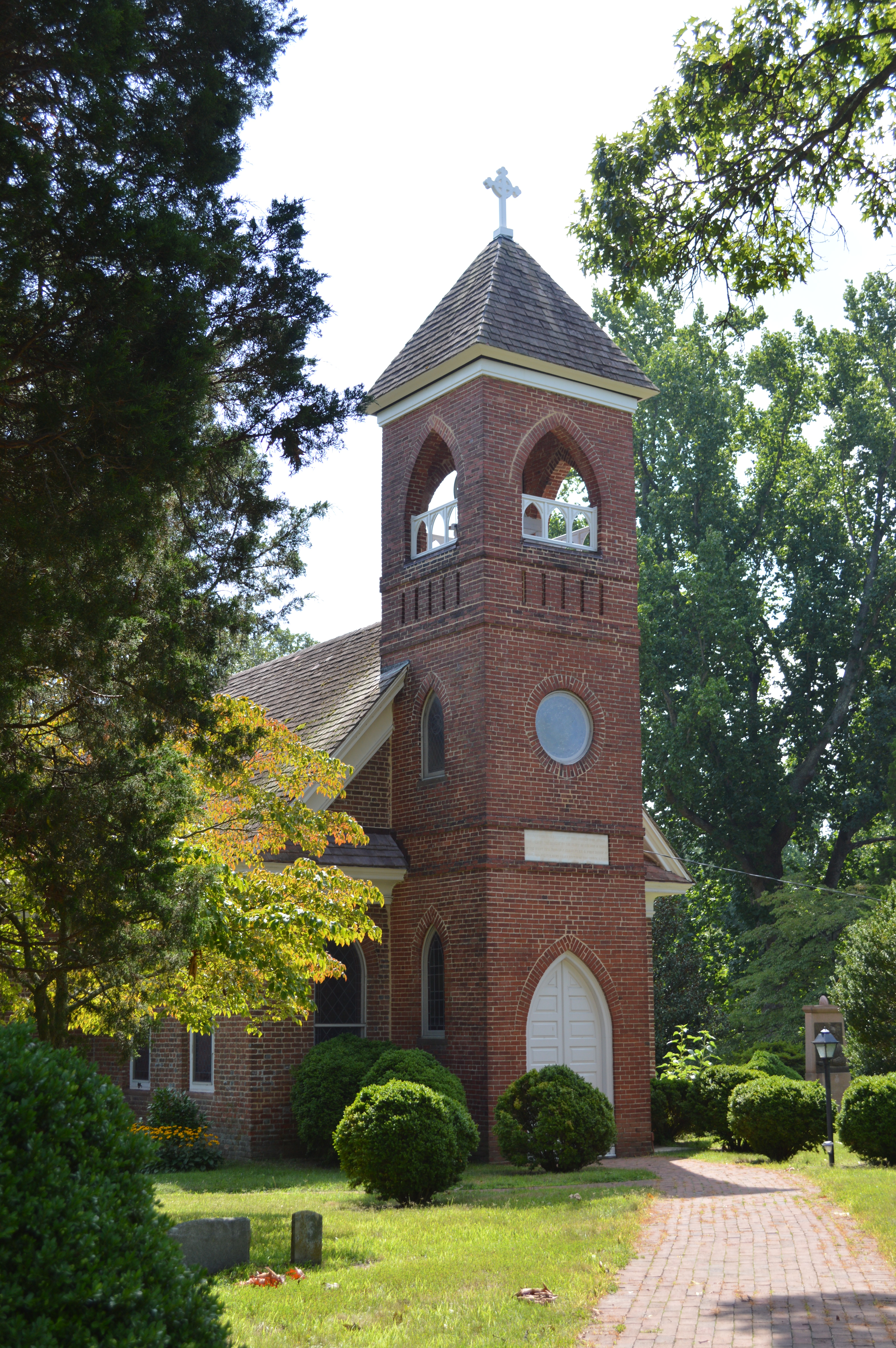 St. Thomas